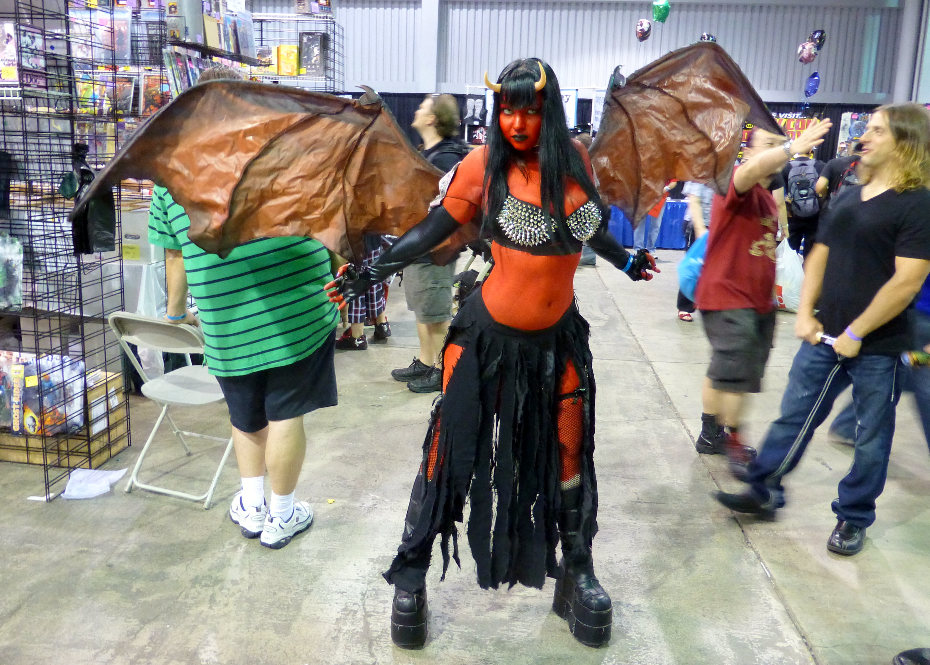 Rose Noir cosplaying as Purgatori (comic book character published by multiple publishers) at the 2013 Wizard World Chicago.